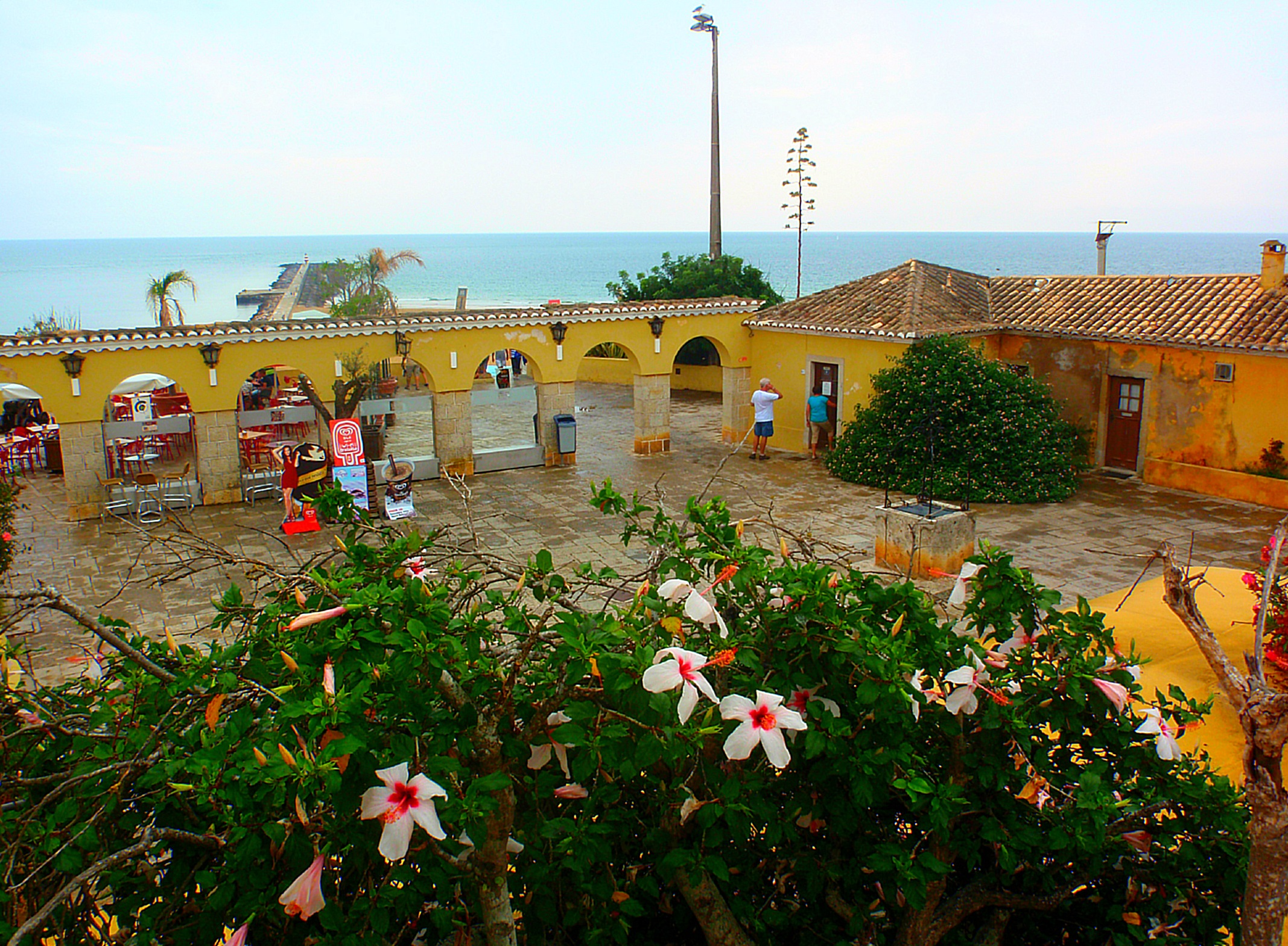 Forte Santa Catarina, Praia da Rocha, Portimao, Portugal.